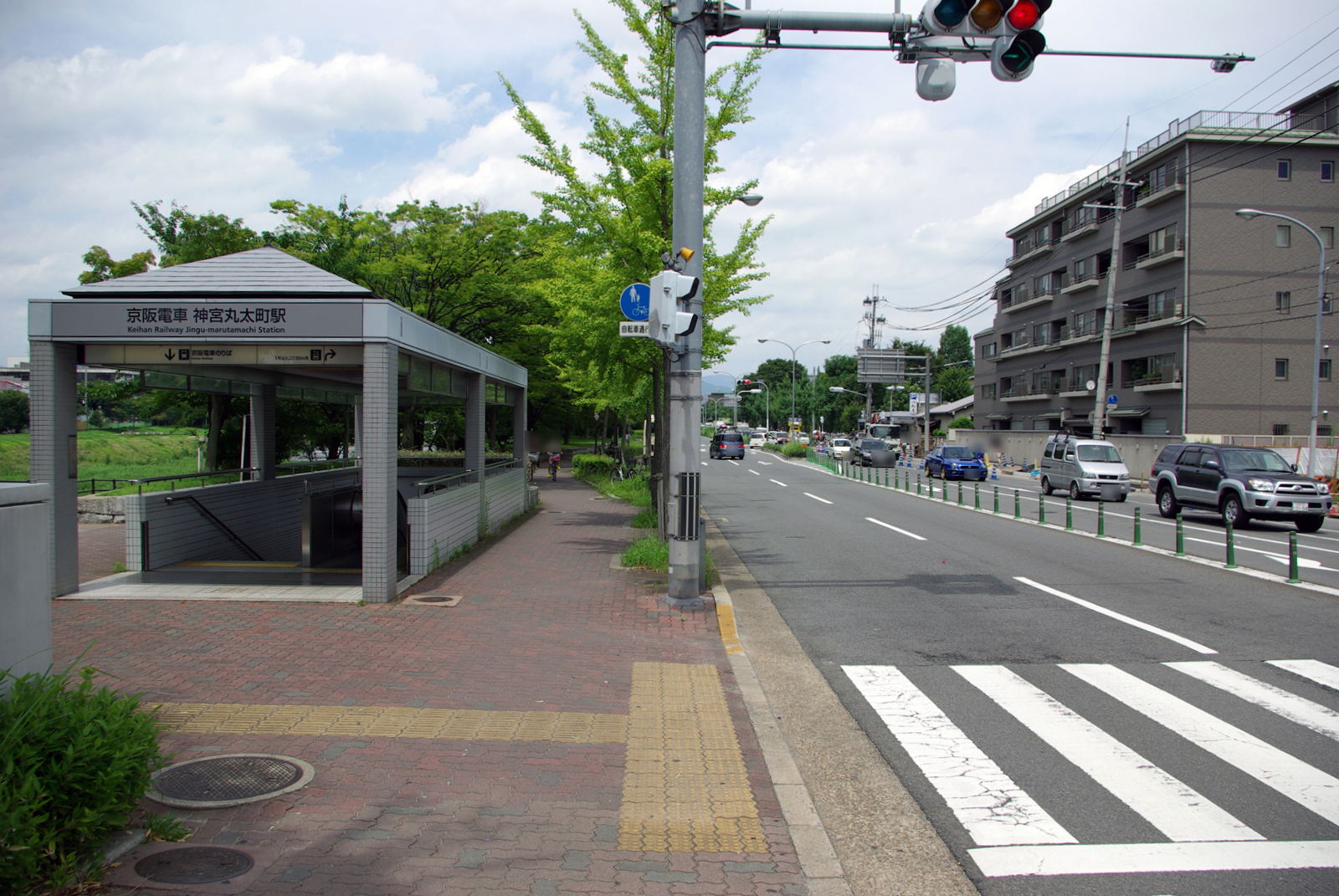 Keihan Jingu-Marutamachi Station